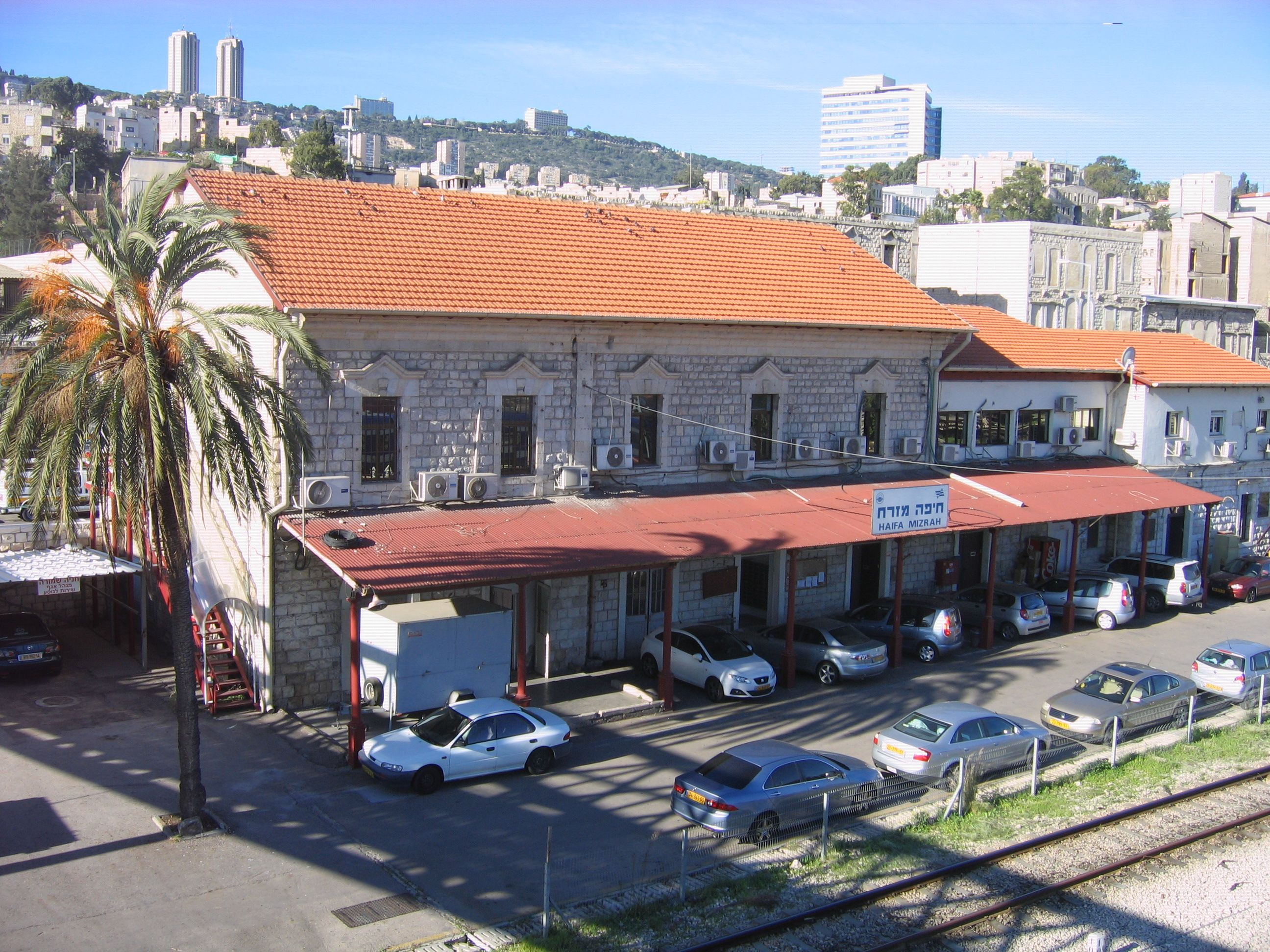 Rly. Station Haifa East(Mizrah)